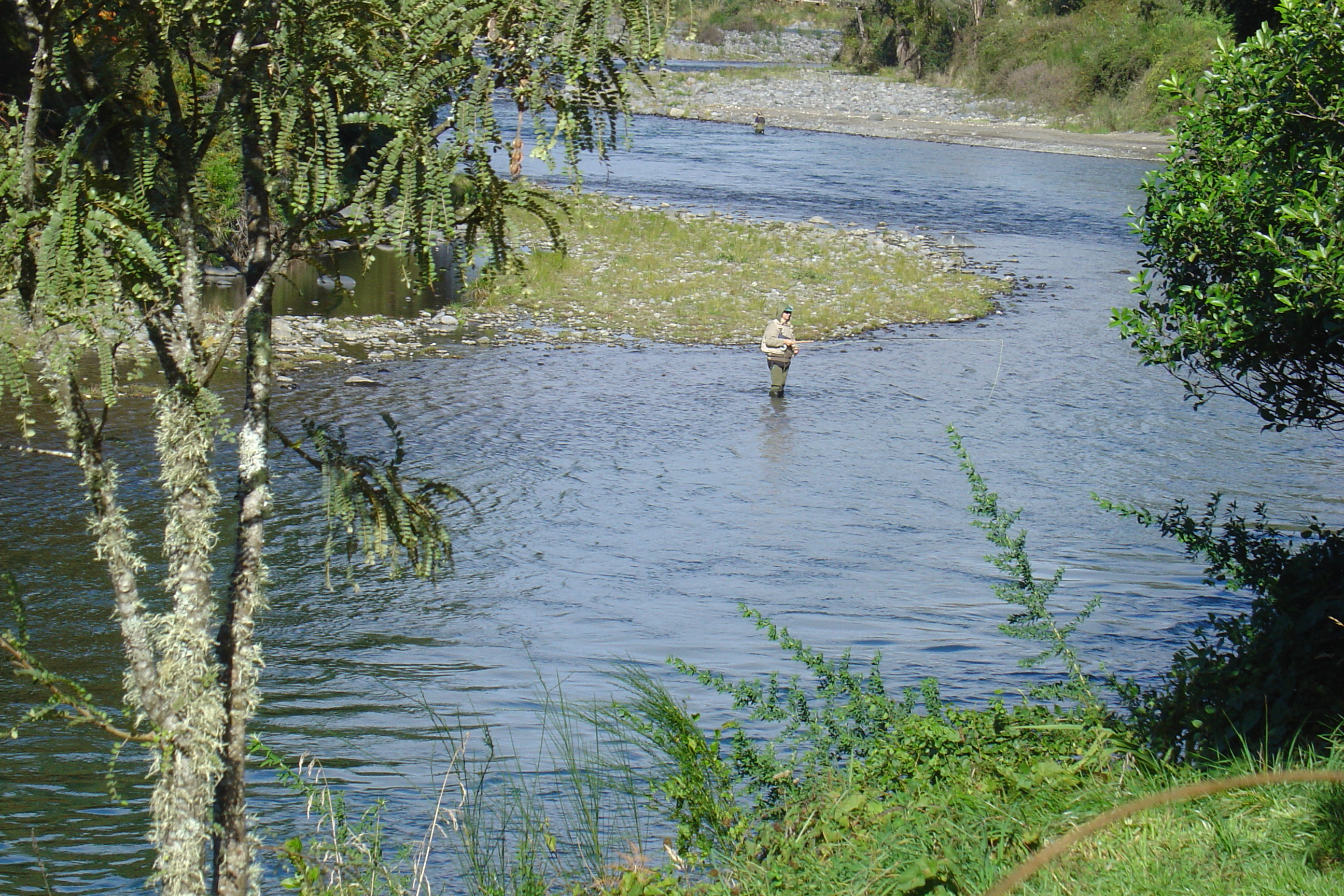 Photo from Turangi, New Zealand Tongariro River photo